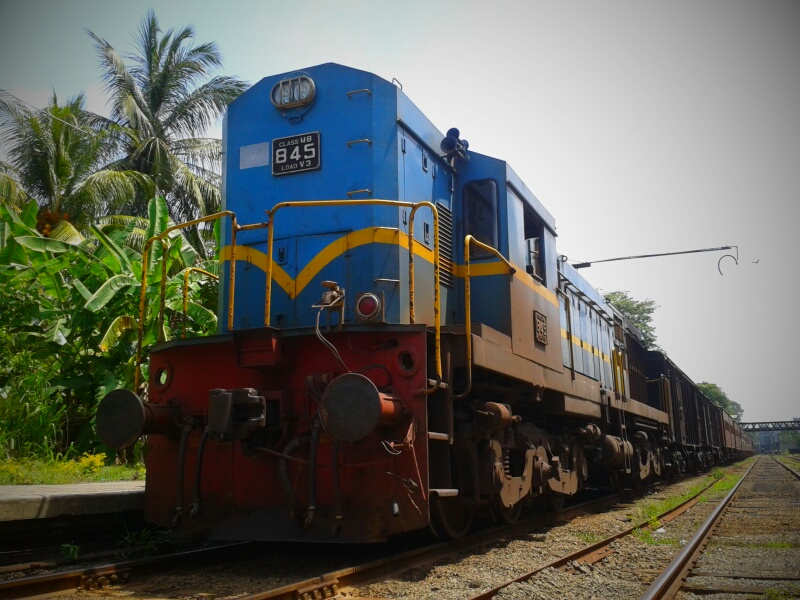 Class M8 diesel locomotive manufactured by diesel locomotive works and operated by Sri Lanka Railways at Kurunegala railway station